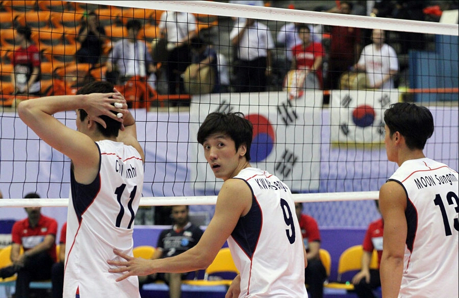 Kwak Seung-suk